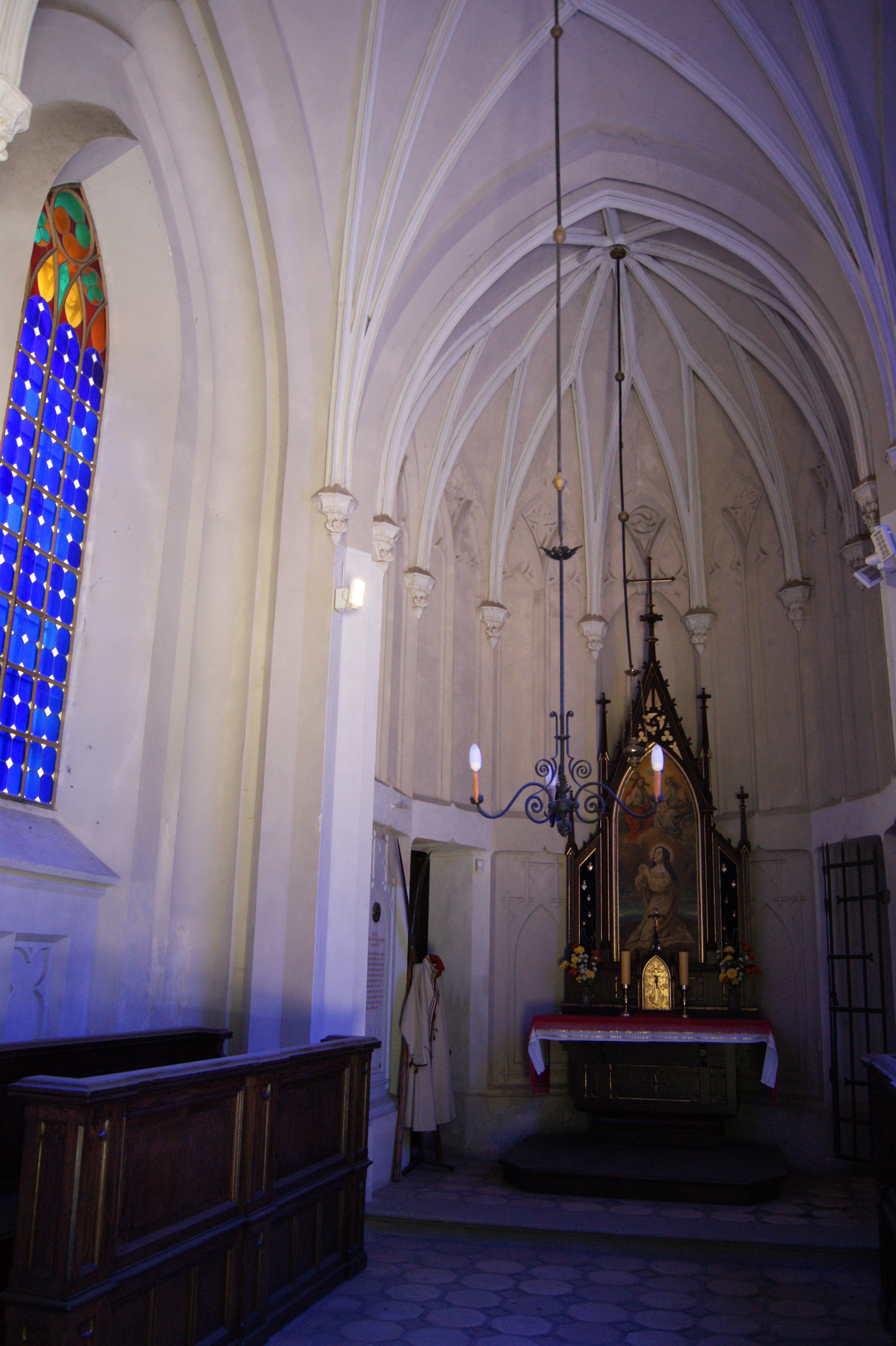 Chapel of Blessed Bronisława (interior), 1 Waszyngtona Av, Krakow,Poland